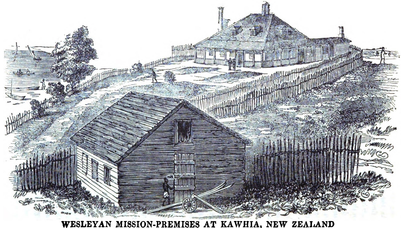 Wesleyan Mission-Premises at Kawhia, New Zealand (p.52, 1849)